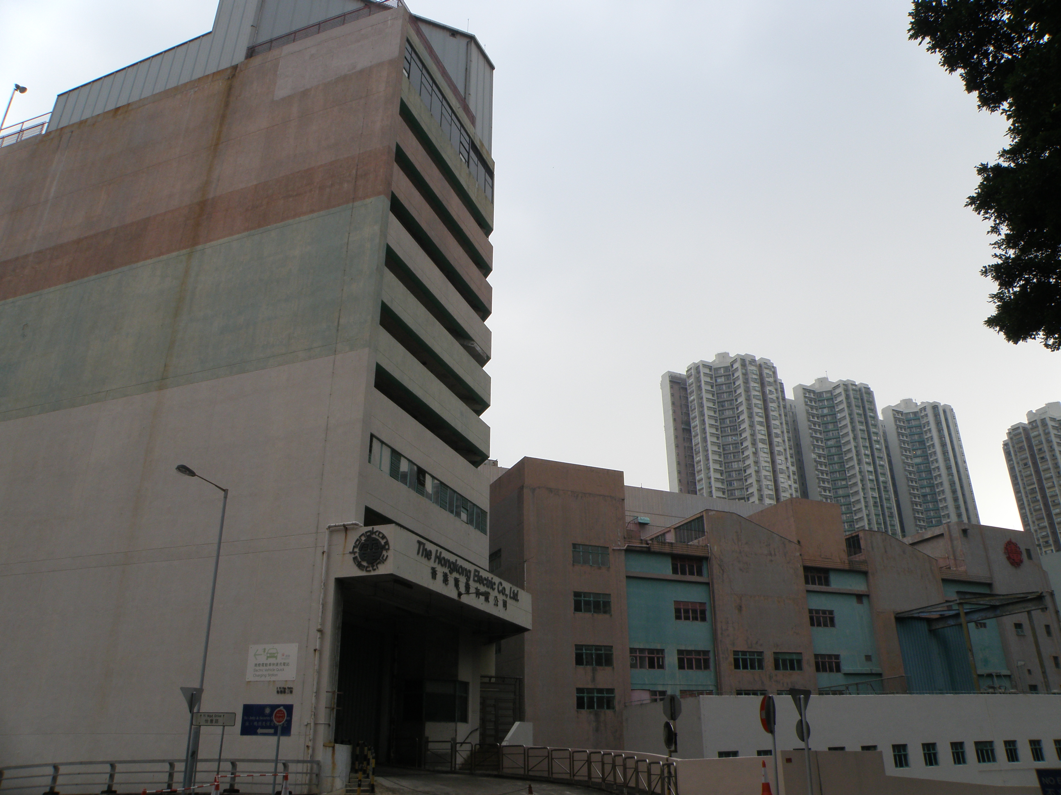 Hong Kong Electric Co. Ltd. Operational Headquarters in Ap Lei Chau, Hong Kong.